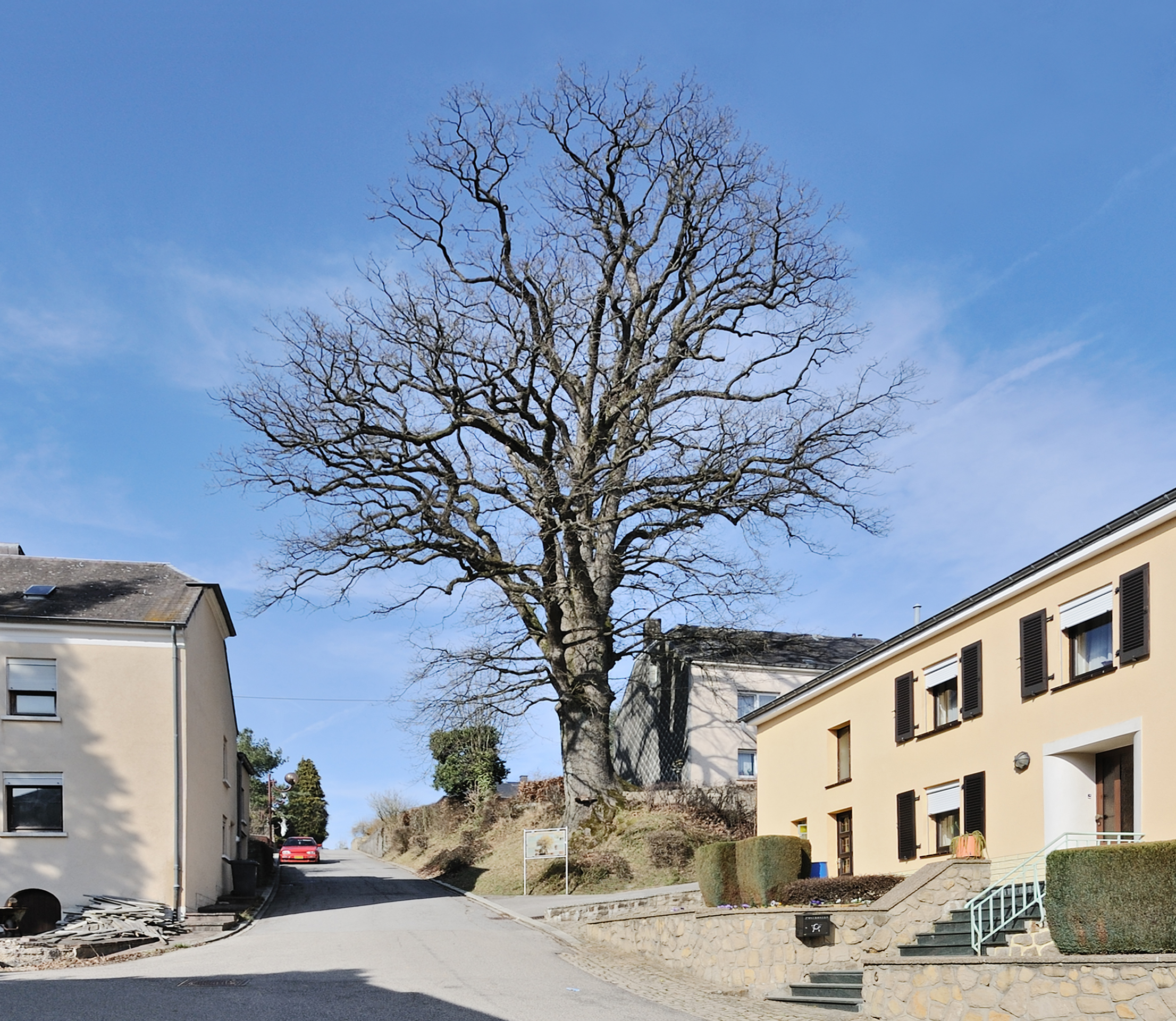 Luxembourg, Kleinbettingen: remarkable oak (Quercus robur). Protected since July 19 2001.